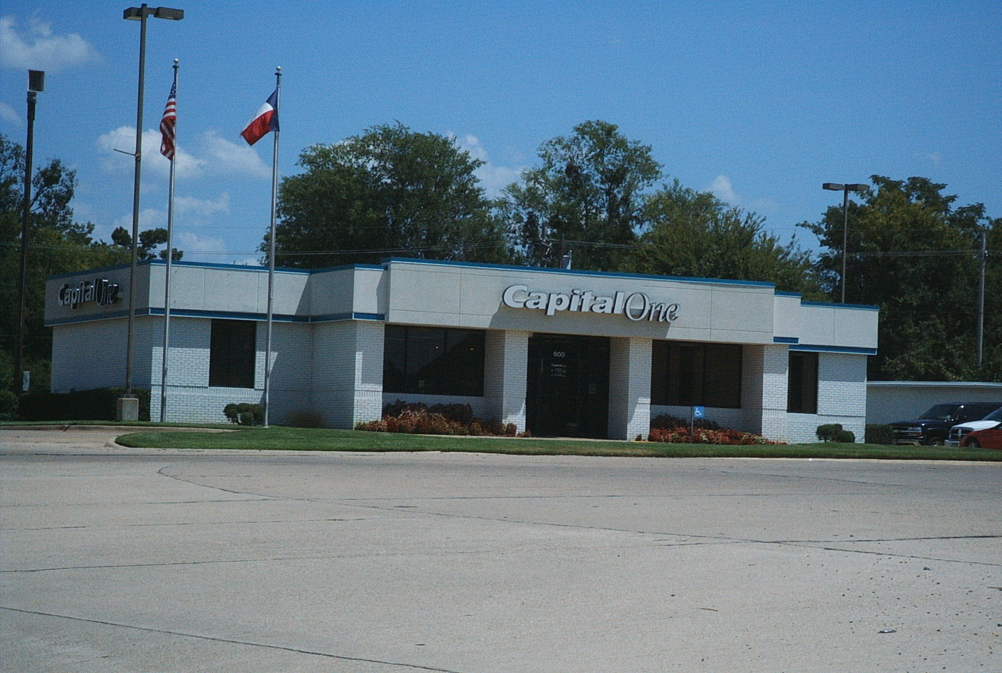 A CapitalOne branch, formerly a Hibernia National Bank, located in Wake Village, Texas.